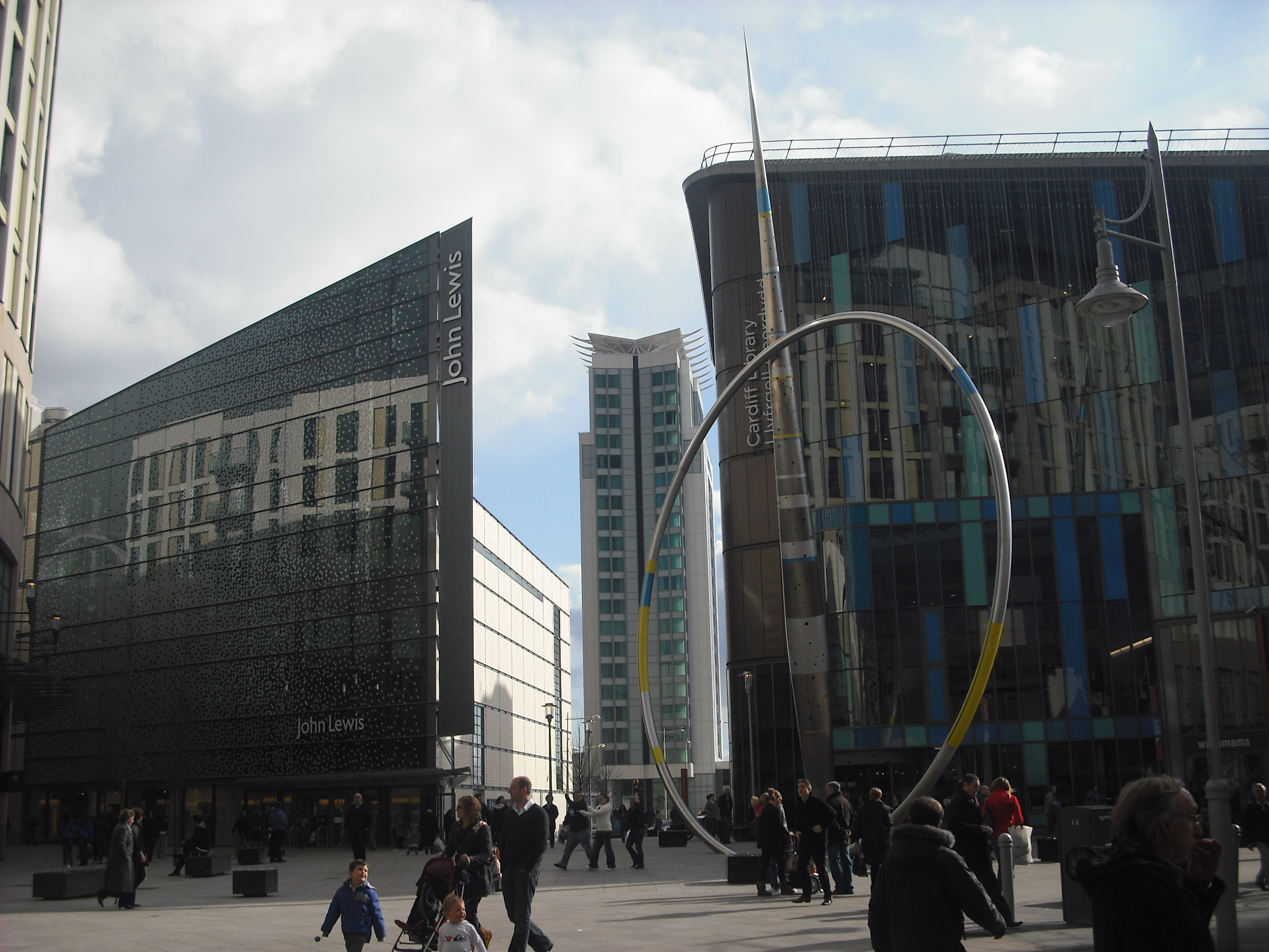 The southern ares of The Hayes in Cardiff.